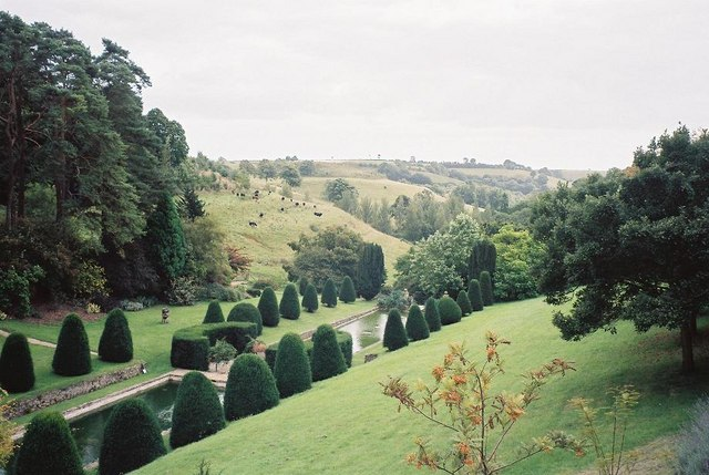 Mapperton Gardens: and the view beyond This view shows the contrast between the formality of the gardens and the natural unevenness of the surrounding countryside.